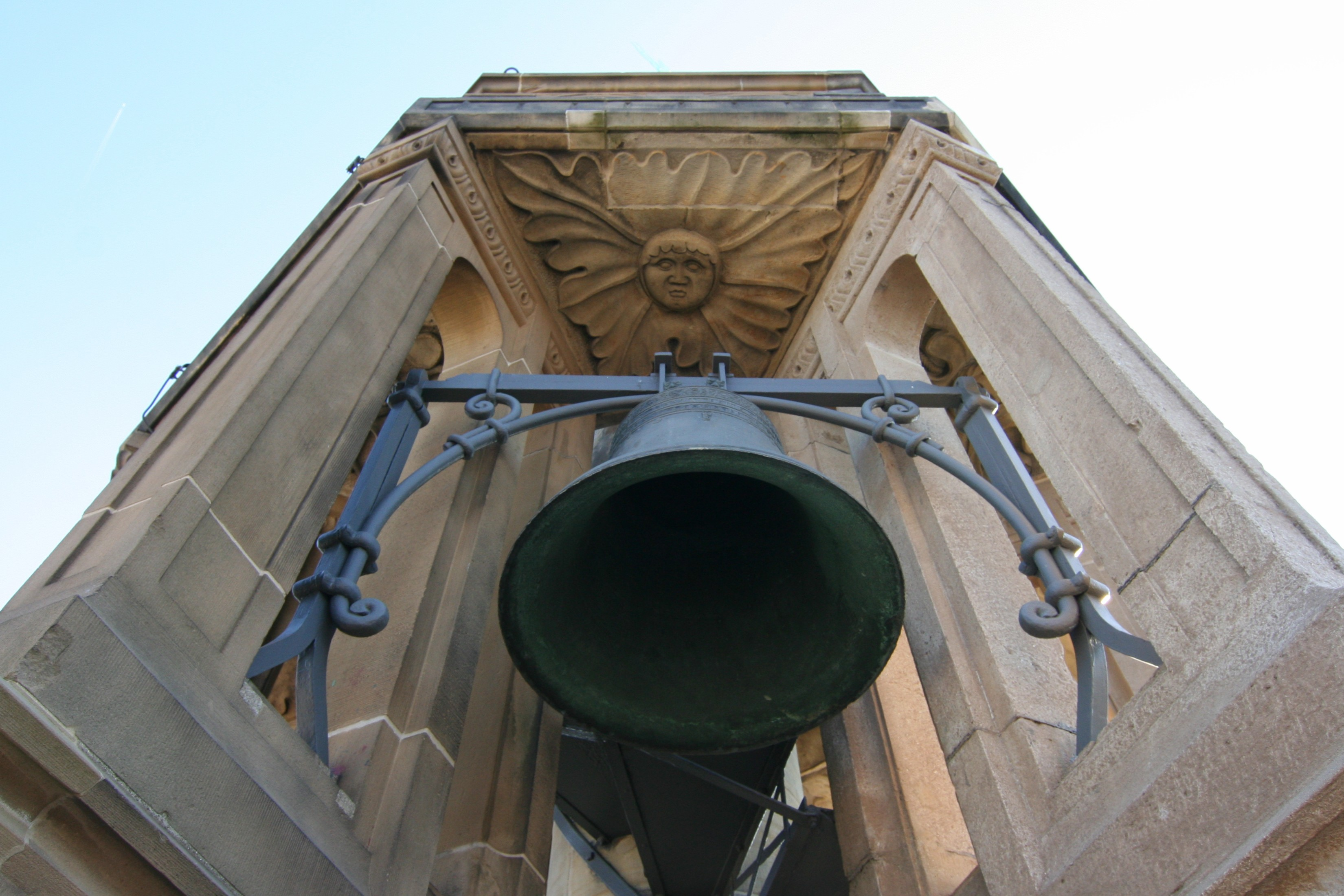 Bell in the spire of the west tower of the Kilianskirche in Heilbronn